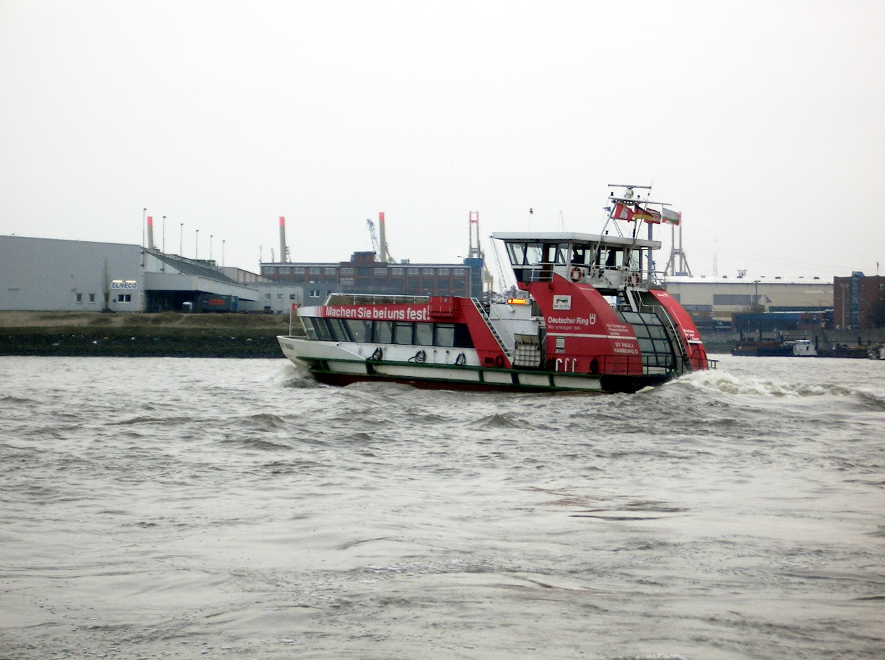 Ferry on the river Elbe at Hamburg Harbour.